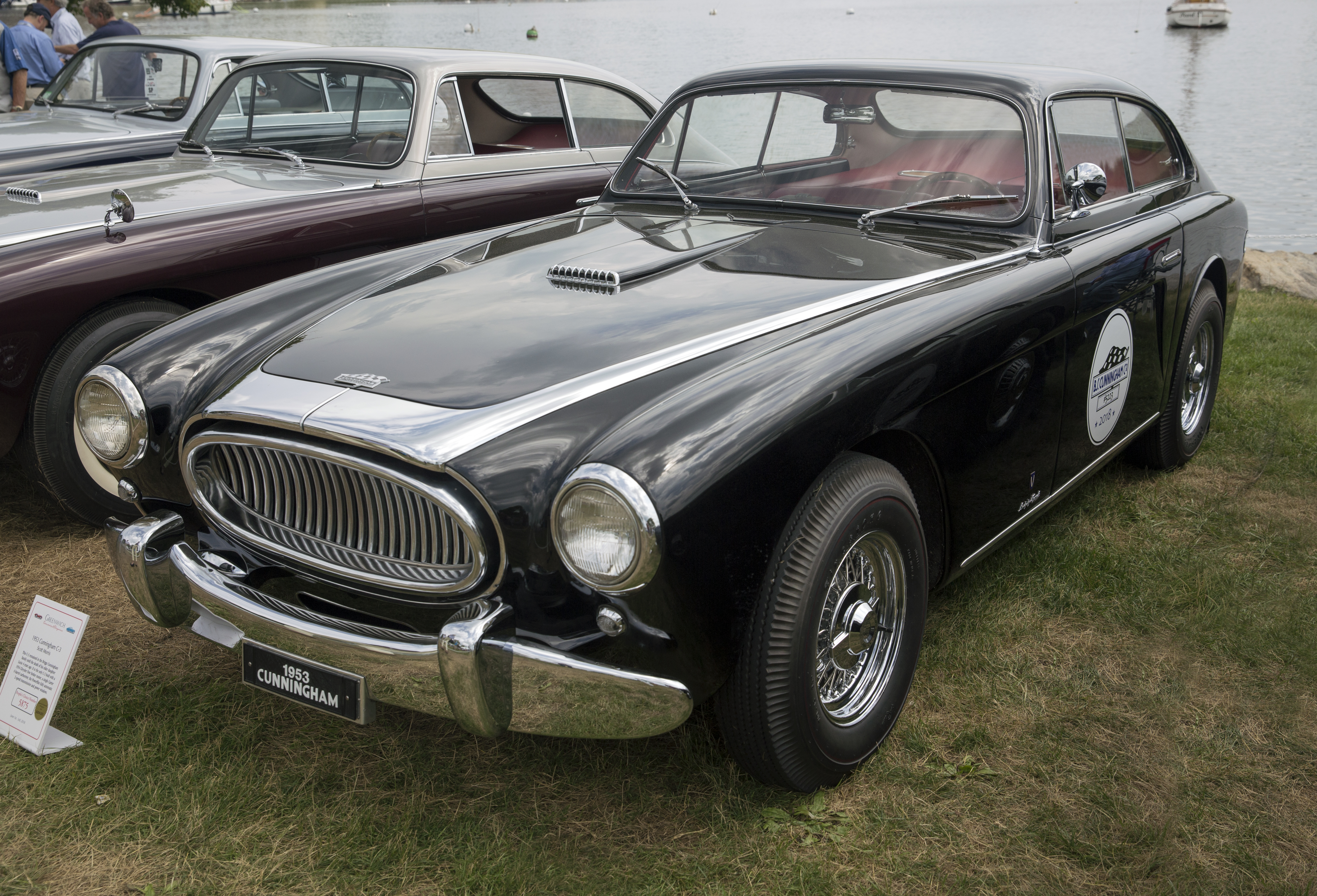 A 1954 Cunningham C3 displayed at the 2018 Greenwich Concours d'Elegance. Finished in Black, the chassis was delivered to Vignale in November 1952 and returned to NY in March 1953. Still referred to as a "1954." This car was meant as a demonstrator for some time, but was instead used by Briggs himself who gave it to his elder daughter Lucie McKinney. She kept the car until her death in 2014, it is now with Scott Morris. This is the only car fitted with a two-speed full automatic Chrysler Powerflite transmission, and a standard two-carb New Yorker engine. Originally the car was fitted with a Cadillac manual transmission which seems to have given some trouble. This is also the only Cunningham with power windows.